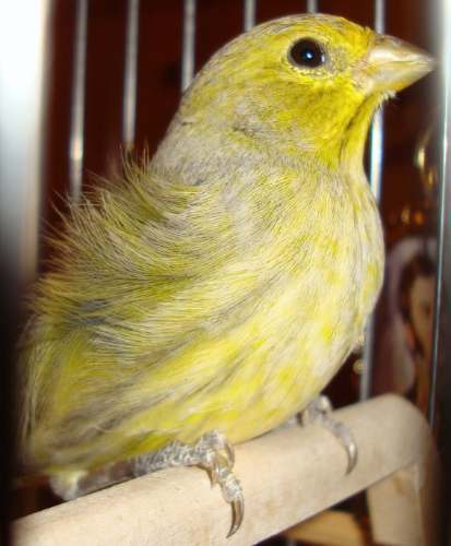 Image